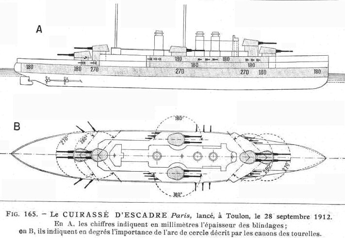 French battleship Paris